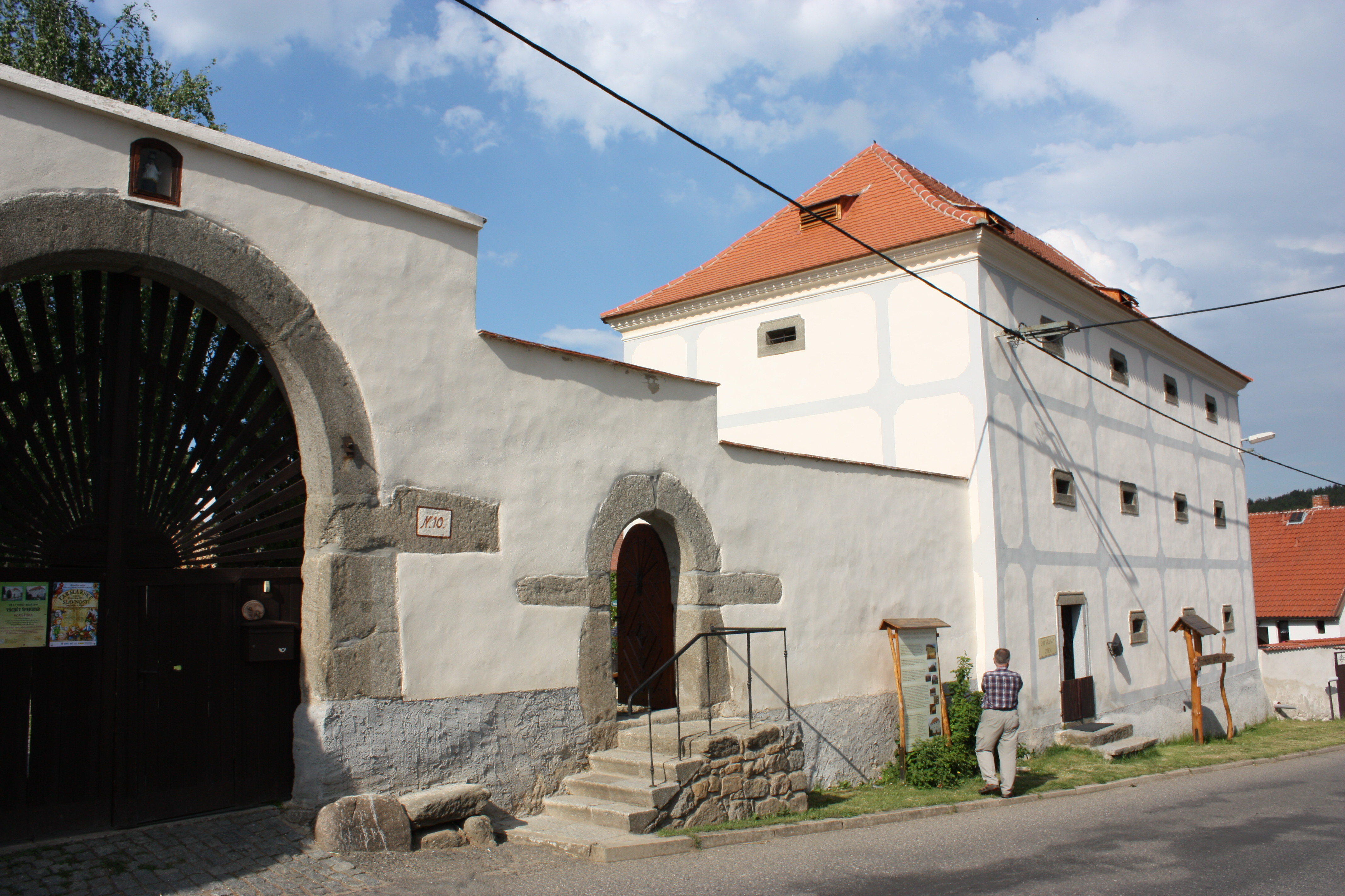 Váchův špejchar - baroque grange in Dražkov (Přibram district) in Central Bohemia, Czechia.